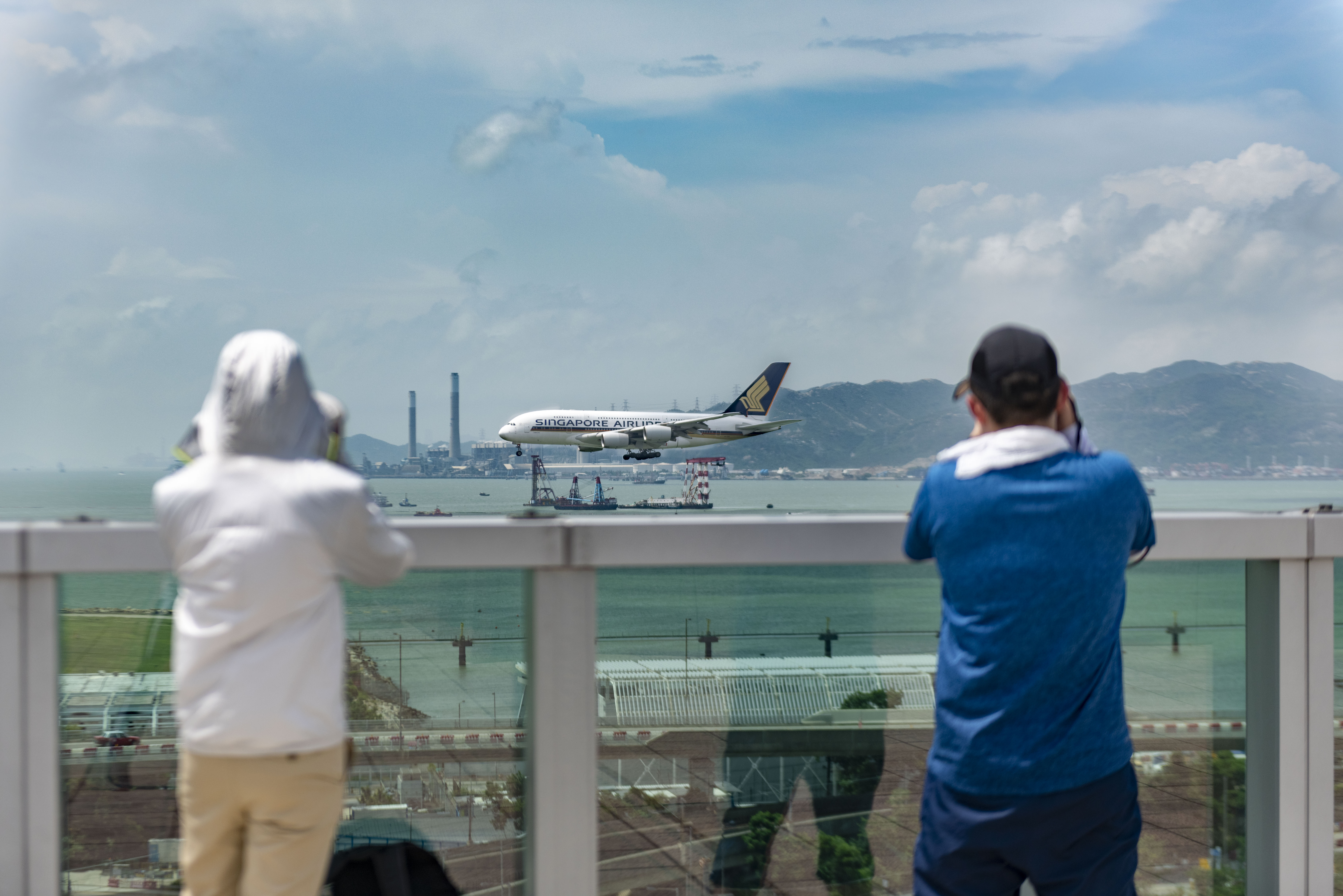 Two photographers are shooting planes at Hong Kong International Airport